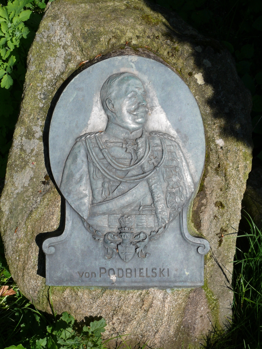 Plaque of the prussian minister of agriculture Victor von Podbielski